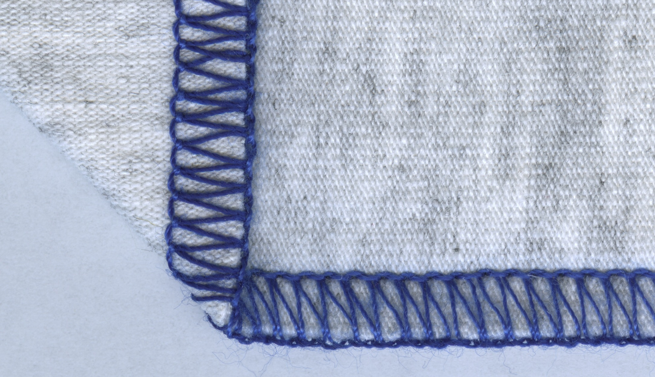 Stitches. Overlock 4-thread